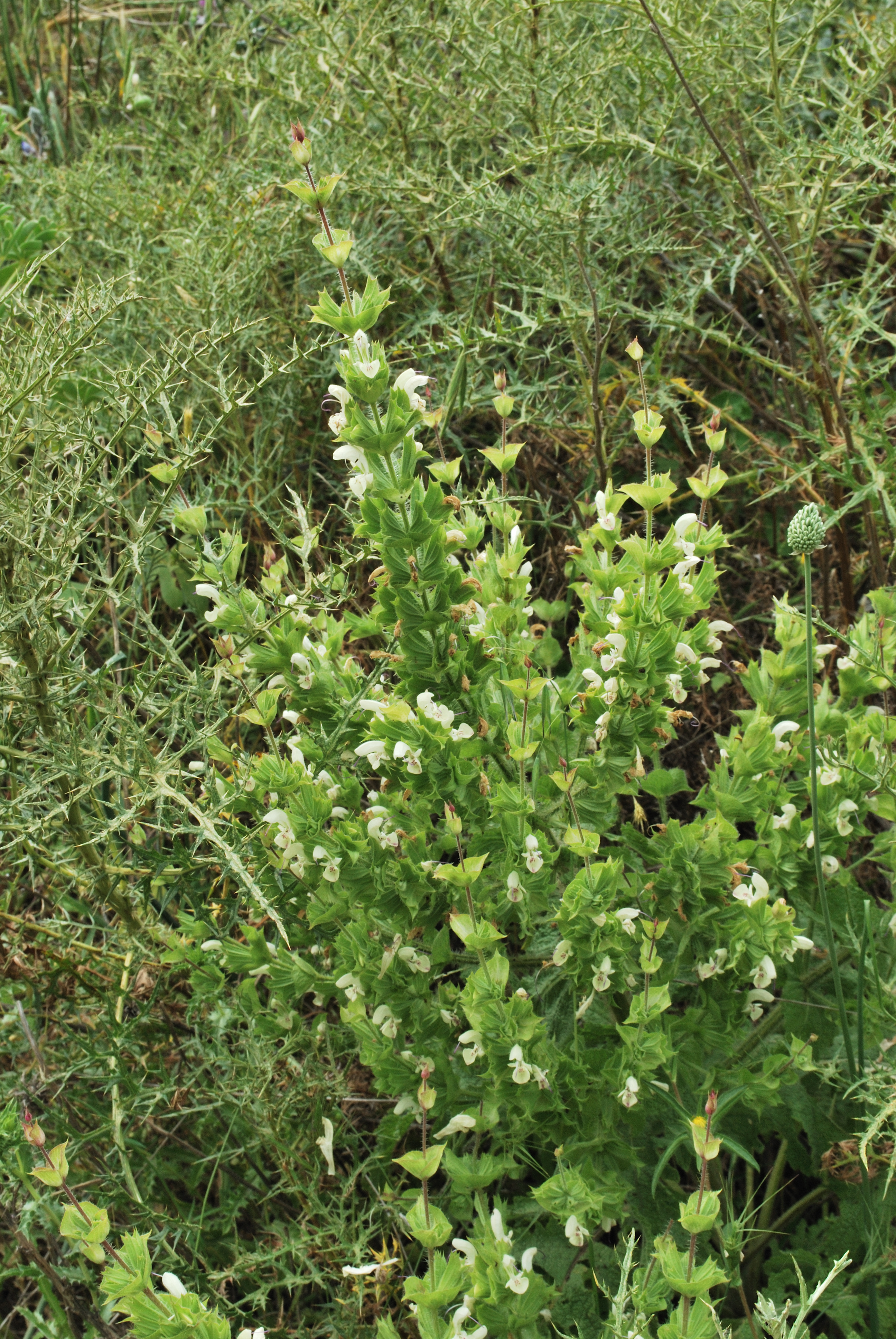 Salvia samuelssonii Rech.f., Nahal Tavor, Lower Galilee, Israel, April 21, 2011.